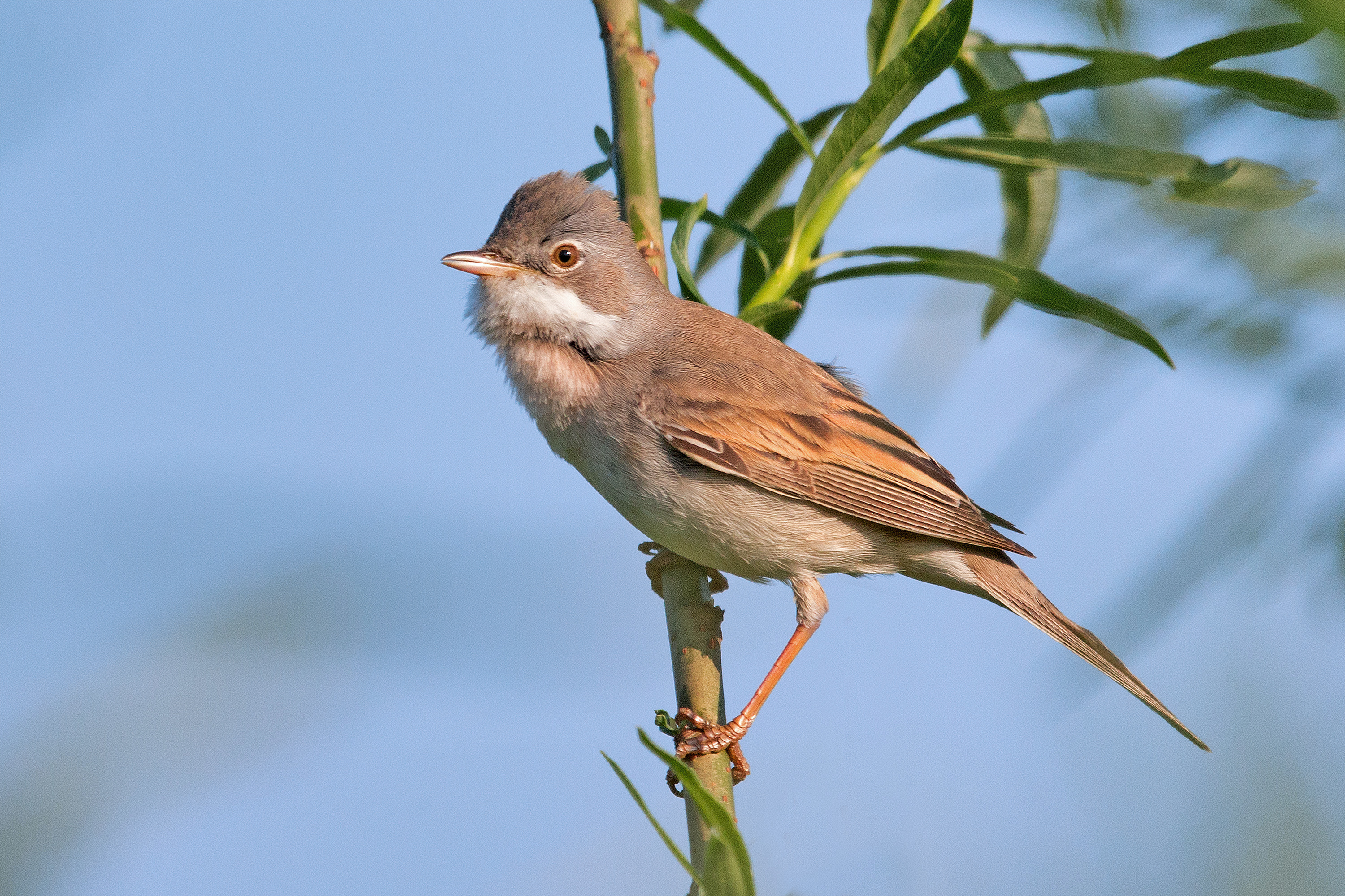 Common_Whitethroat, Niederweimar, Germany